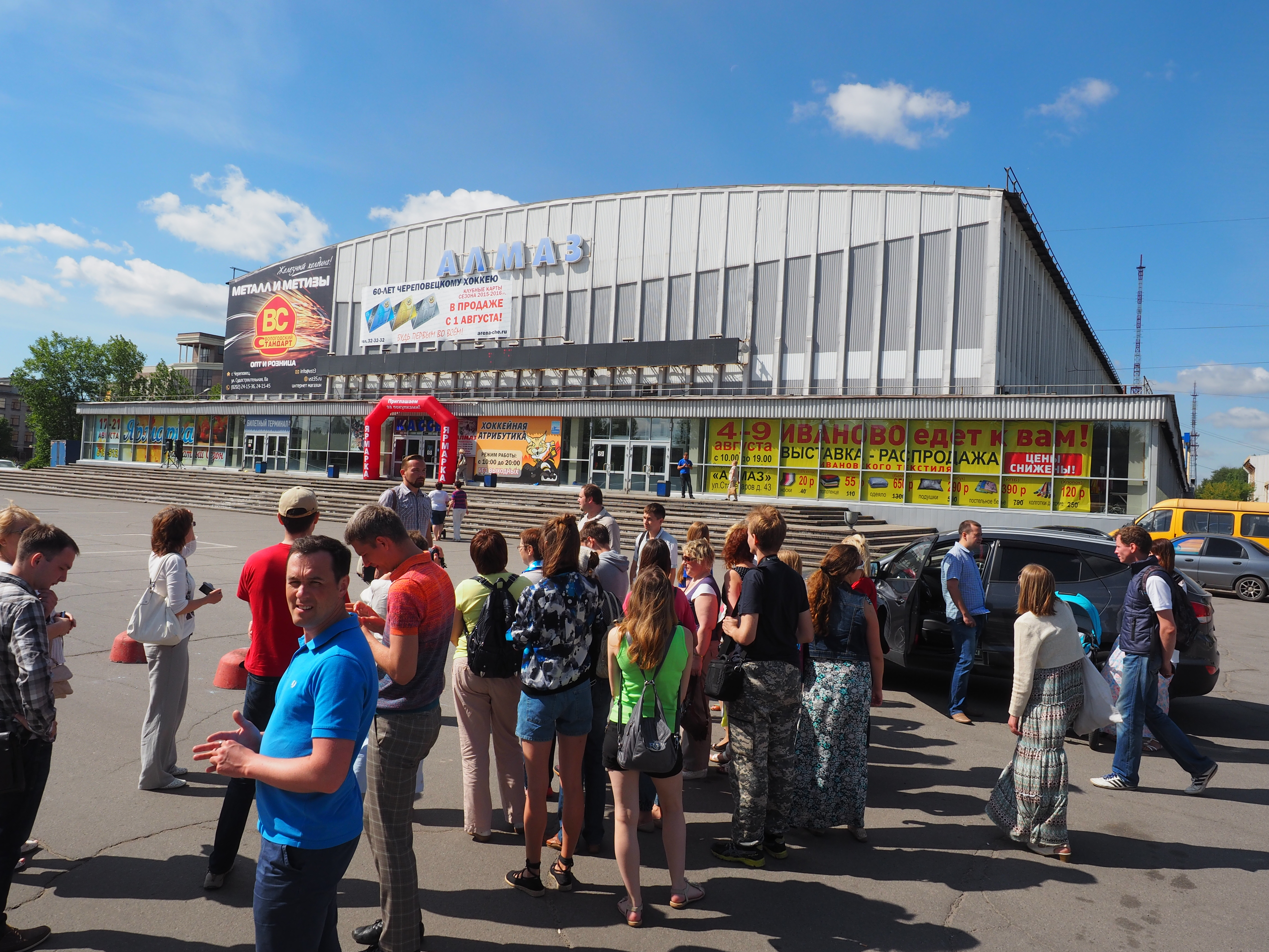 Almaz sports and concert hall, Cherepovets, Vologda Oblast, Russia